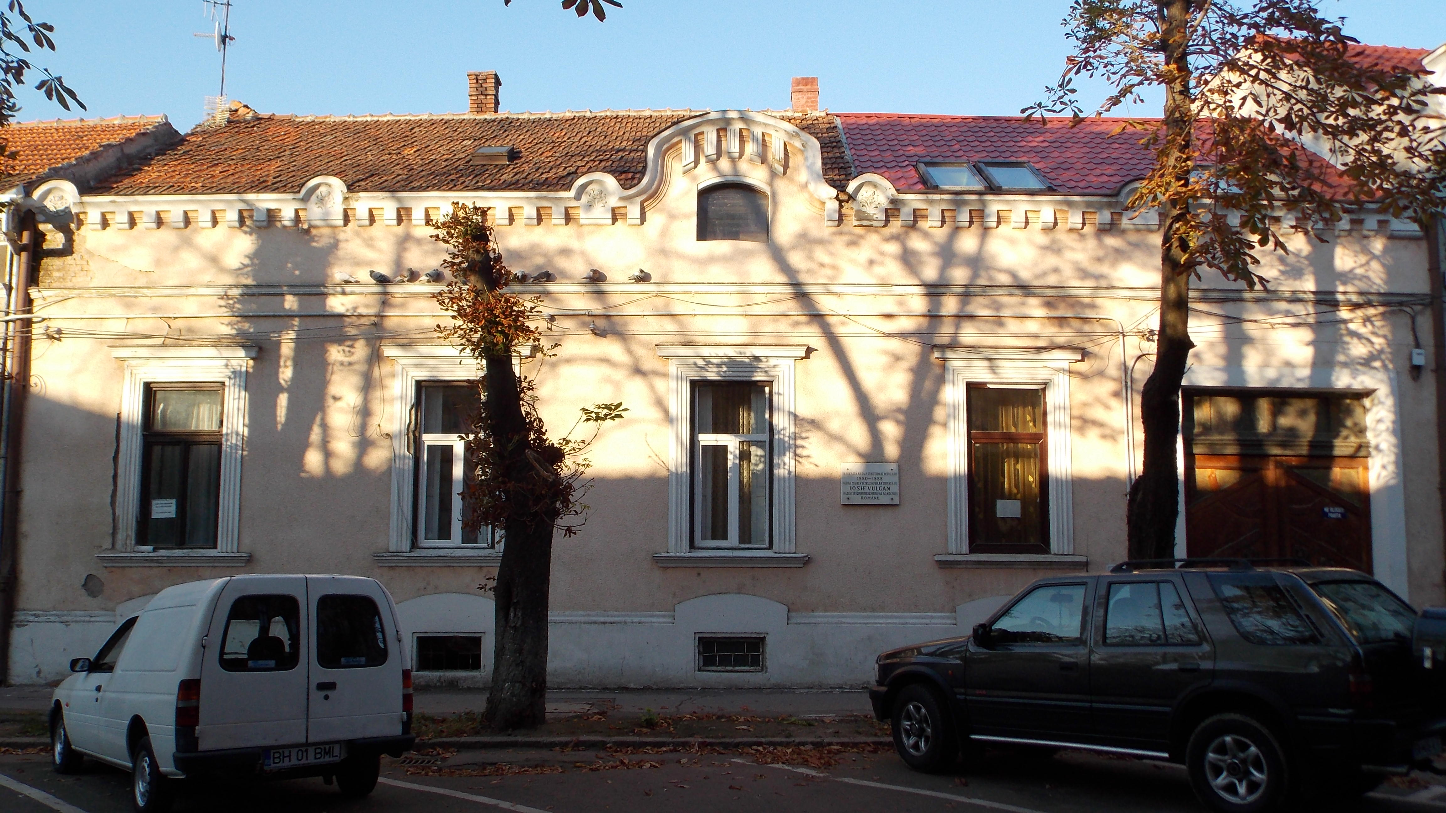 "Familia" magazine headquarters (1880-88) - OradeaRomână: Sediul redacției revista "Familia" între 1880- 1888, Oradea